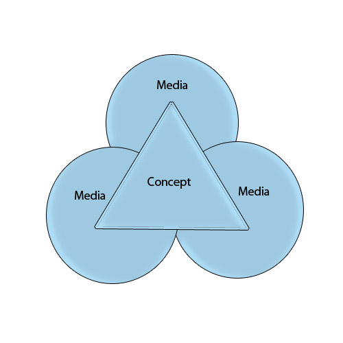 geintegreed concept